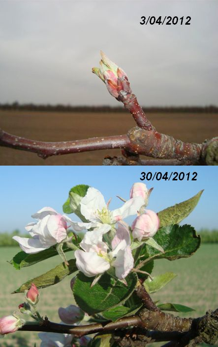 Spur with flower bud in mouse ear stage and in full bloom on Jonagold